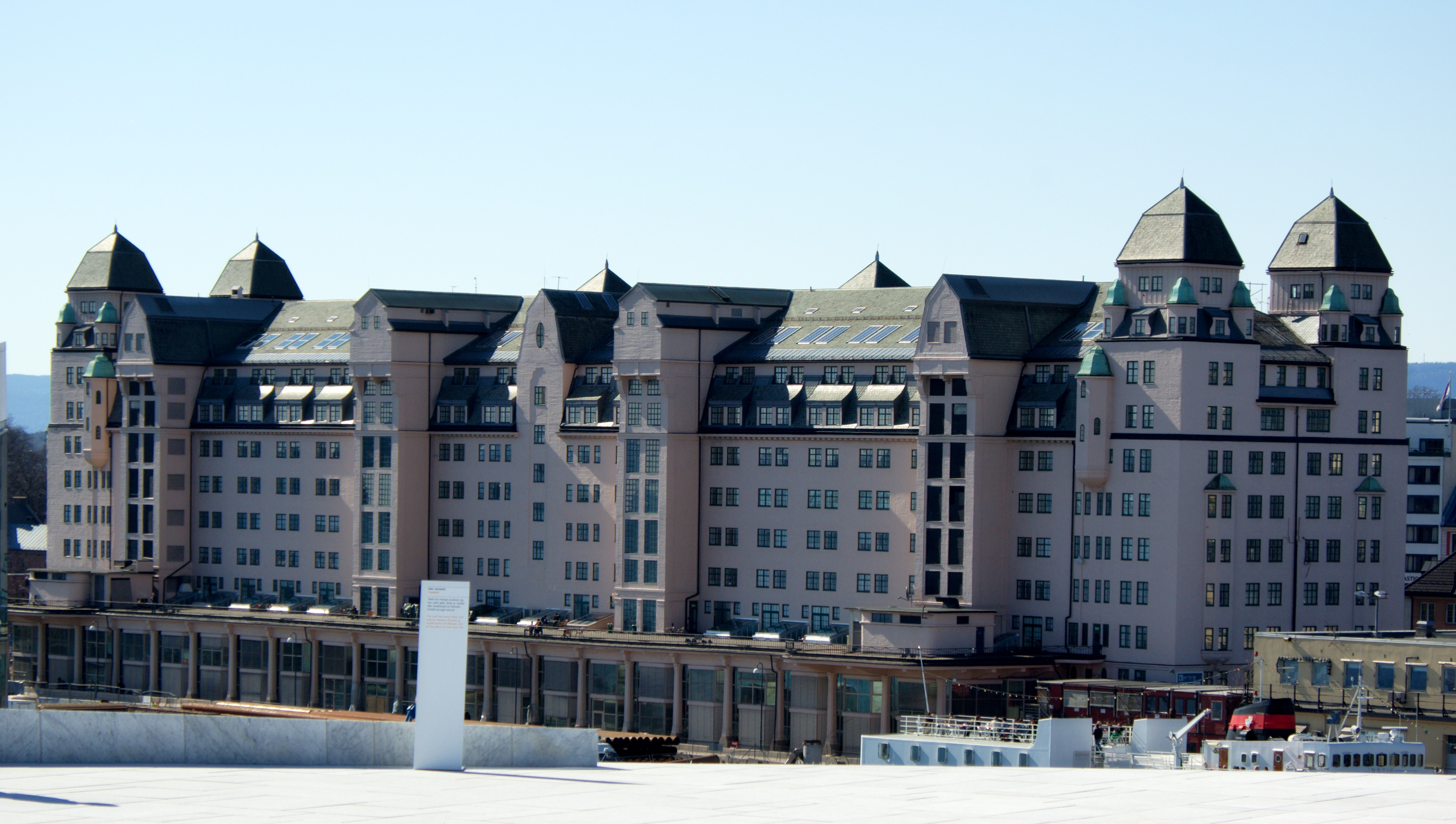 See above